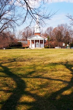 Westmoreland Circle, looking north into Maryland